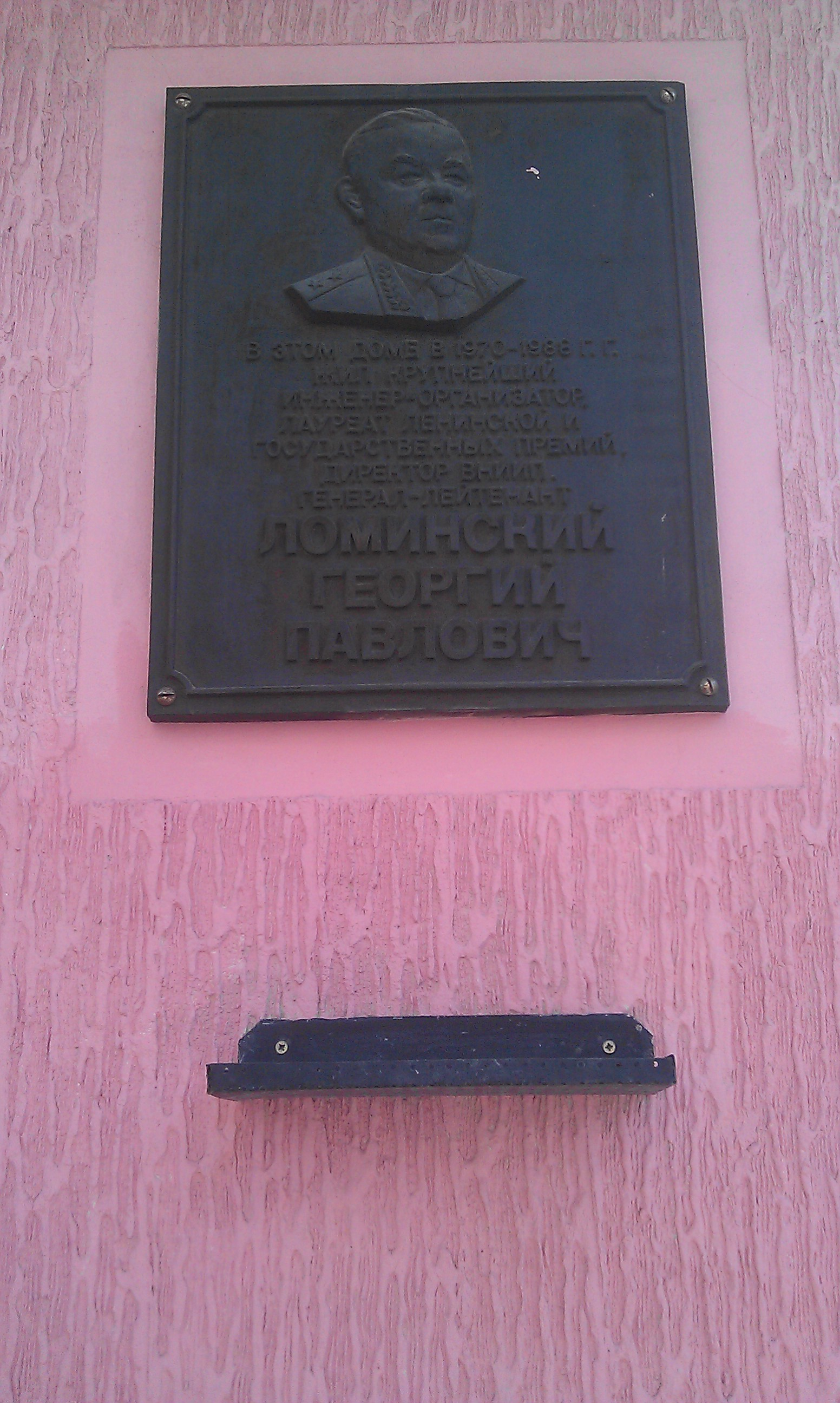 мемориальная доска Ломинского